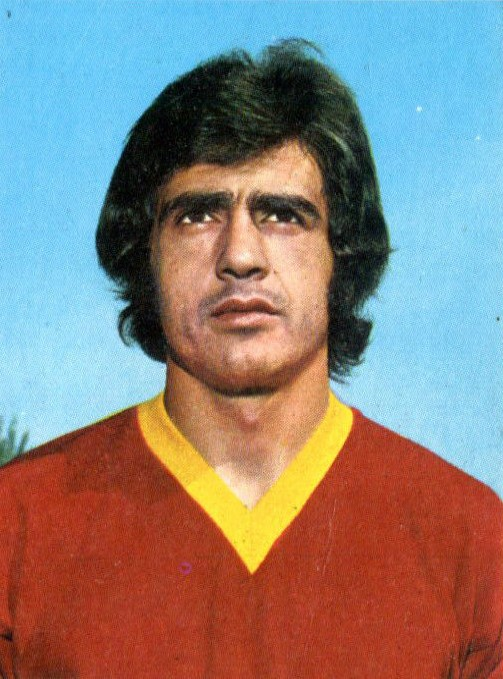 Italian footballer Maurizio Gori with U.S. Catanzaro in the 1971–72 season.